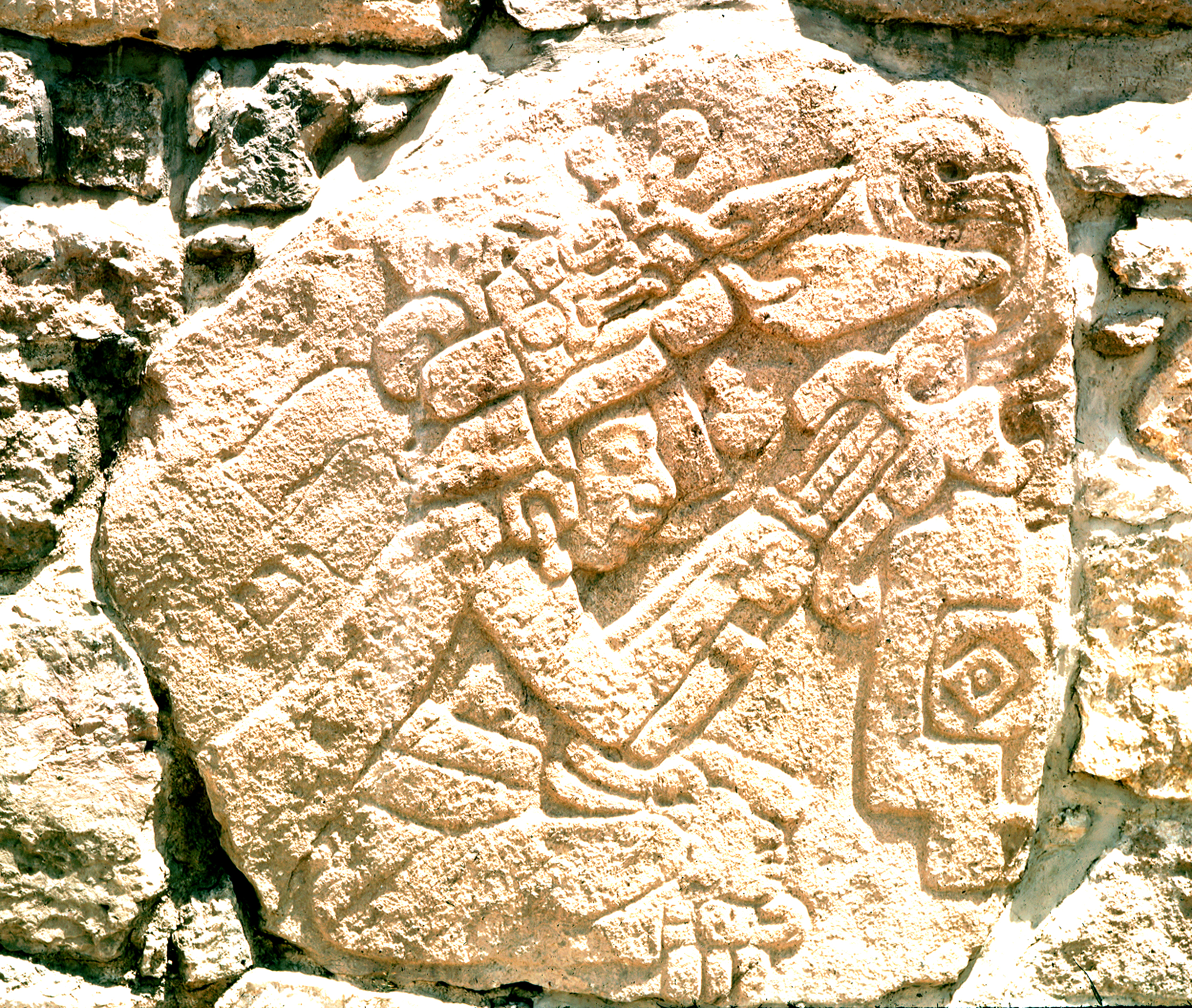 Dainzu, Oaxaca, Mexico: Relief (ball player)